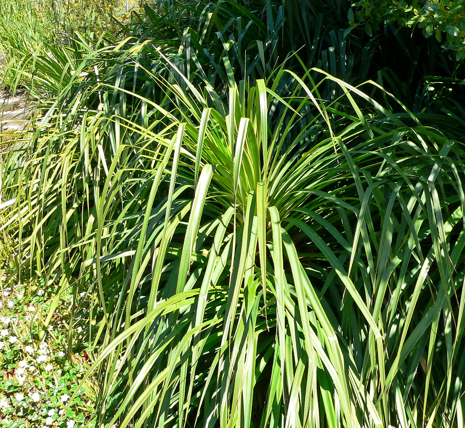 Greigia sphacelata at the University of California Botanical Garden, Berkeley, California